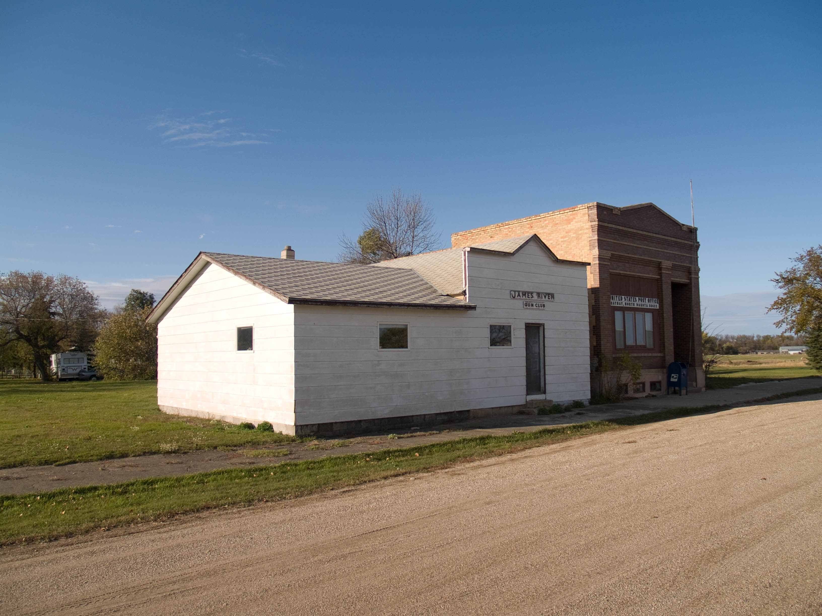 From